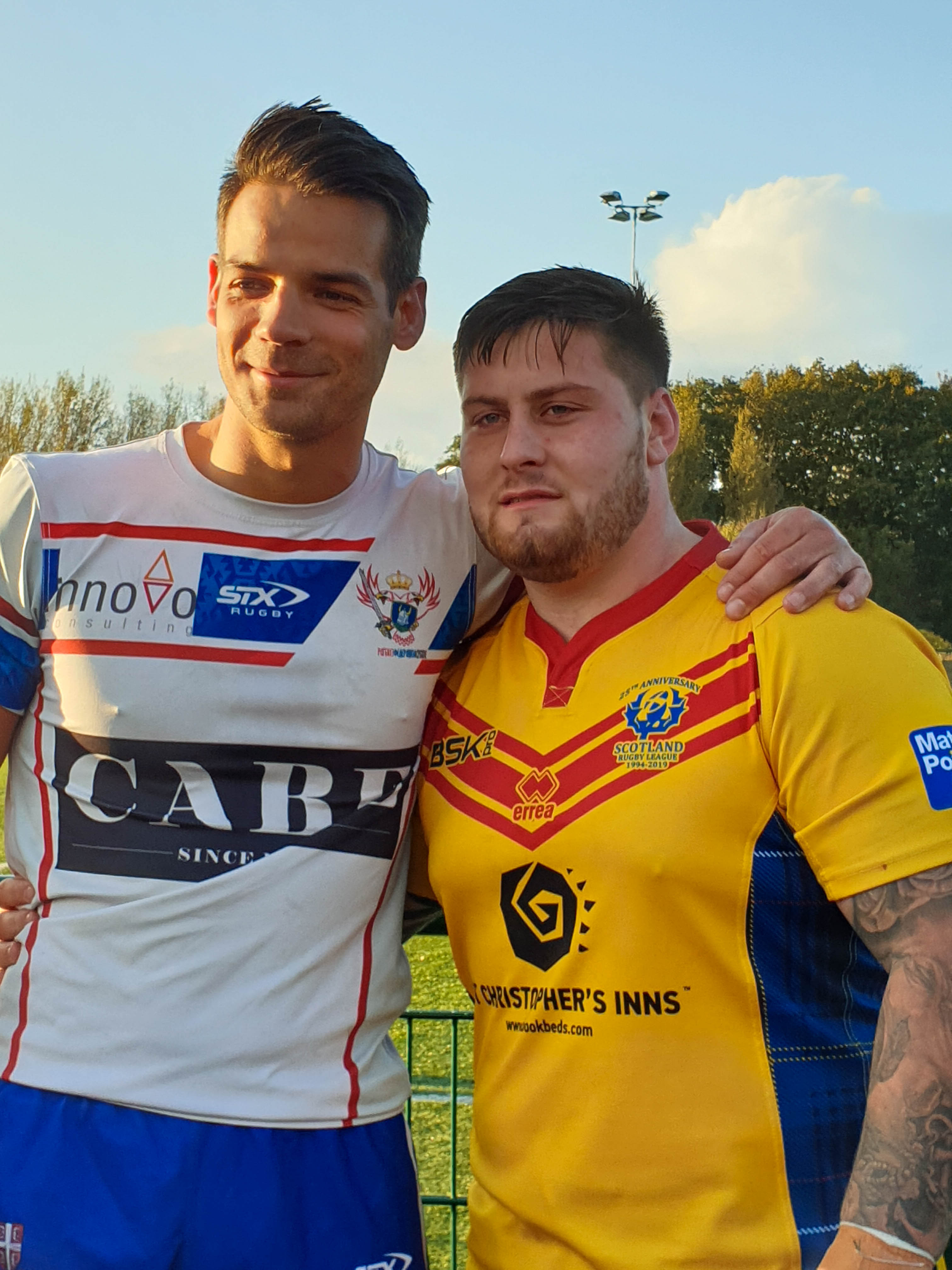 Scottish international rugby league player, Kieran Moran (right) pictured with Serbian international, and fellow Keighley Cougars player, Jason Muranka after the match between Scotland and Serbia at Lochinch Sports Pavilion, Glasgow on 26 October 2019